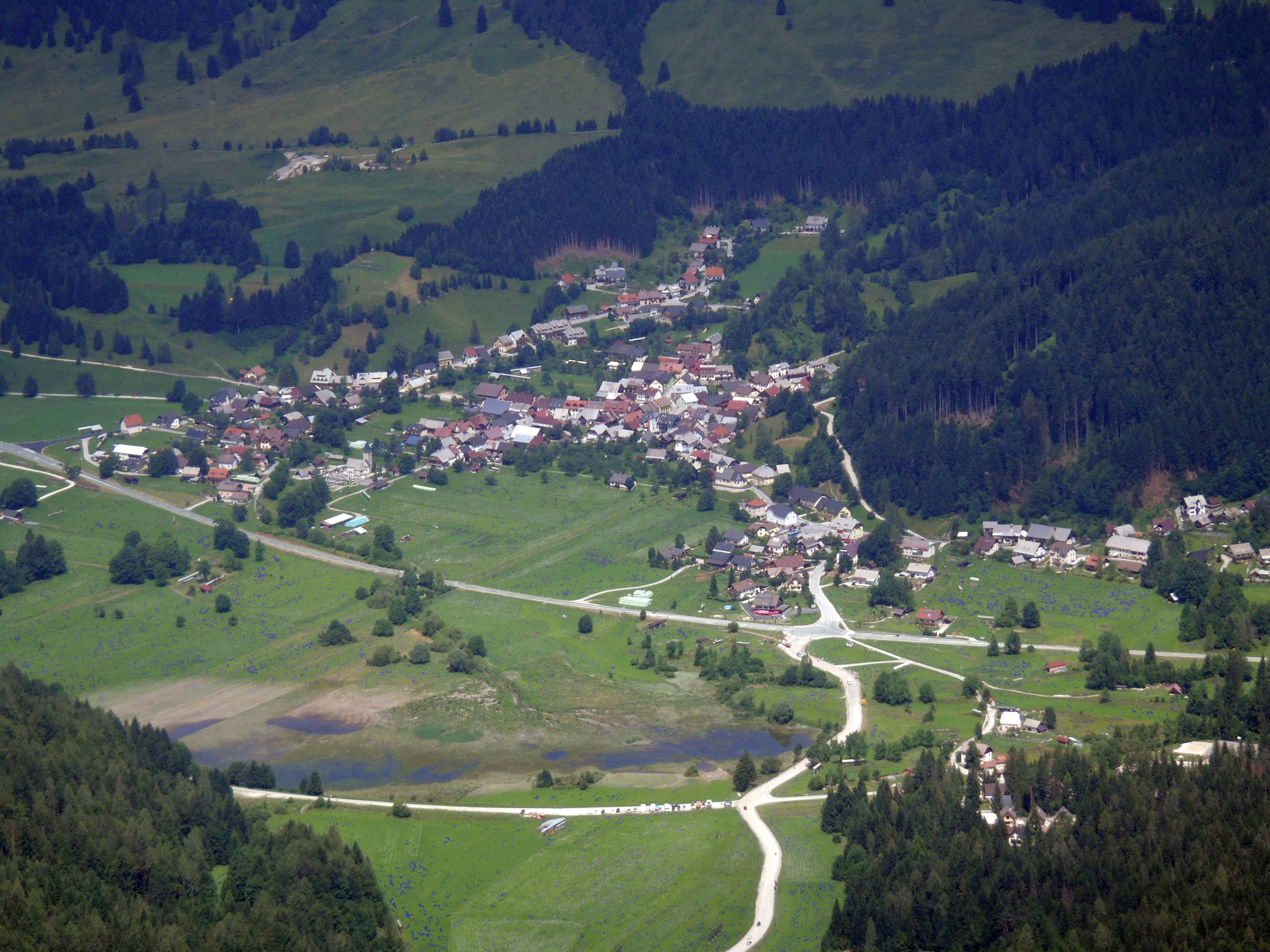 View of Rateče, a settlement in the Upper Sava Valley, from Mt. Ciprnik (Julian Alps).